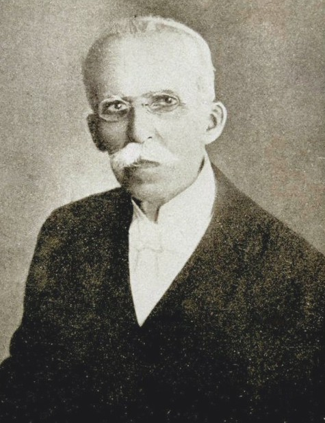 Ruy Barbosa, jurista, diplomata, escritor e político brasileiro.